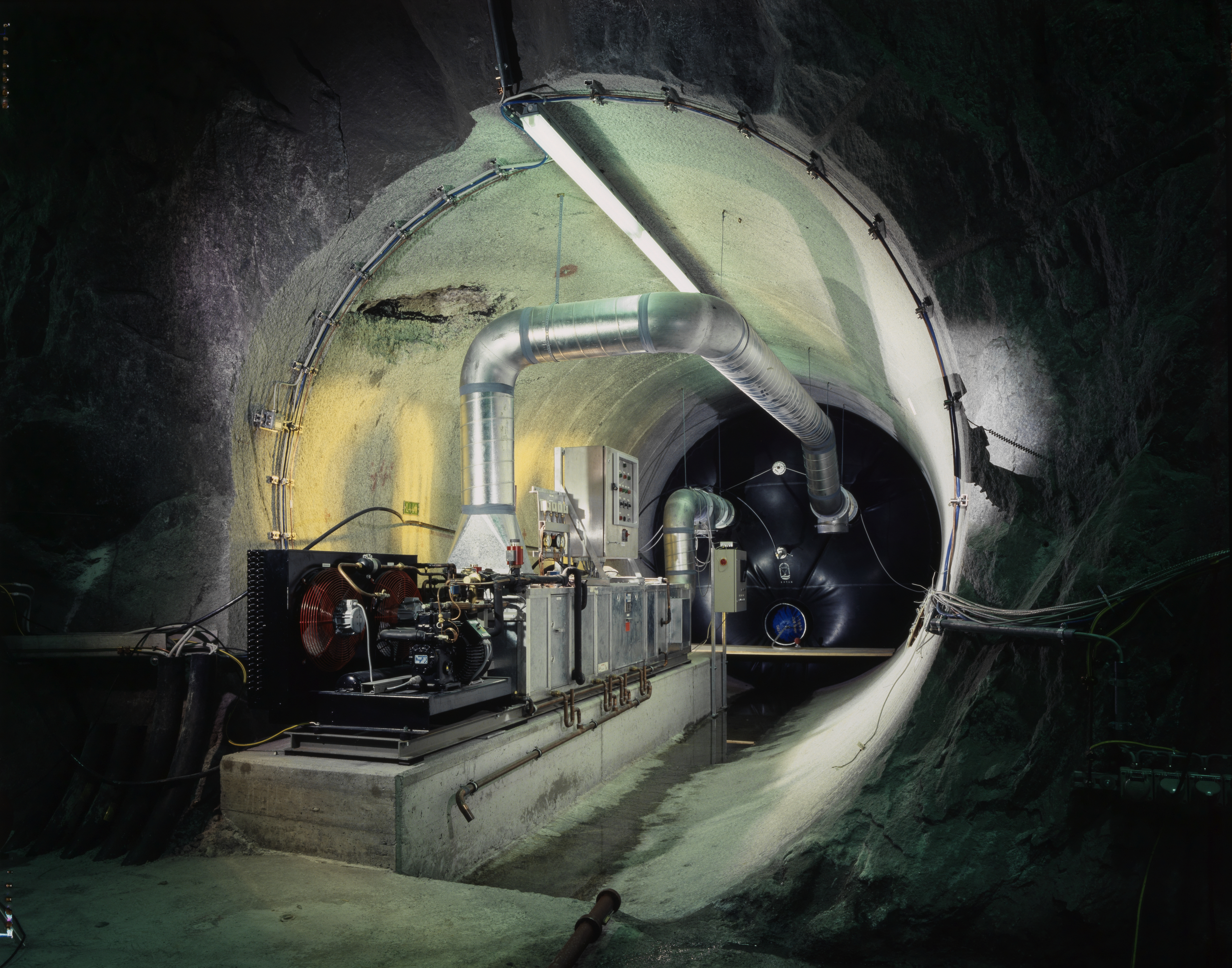 The underground Grimsel Test Site in April 1985.